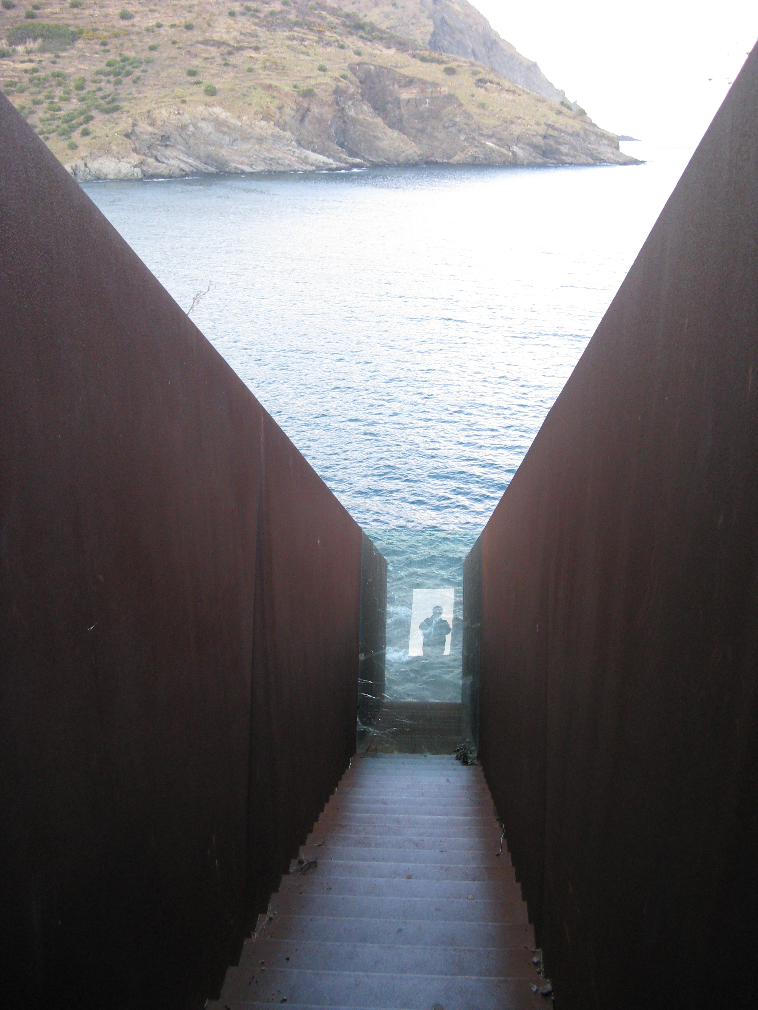 Inside the Walter Benjamin Memorial (Portbou, Catalonia, Spain; Artist: Dani Karavan)